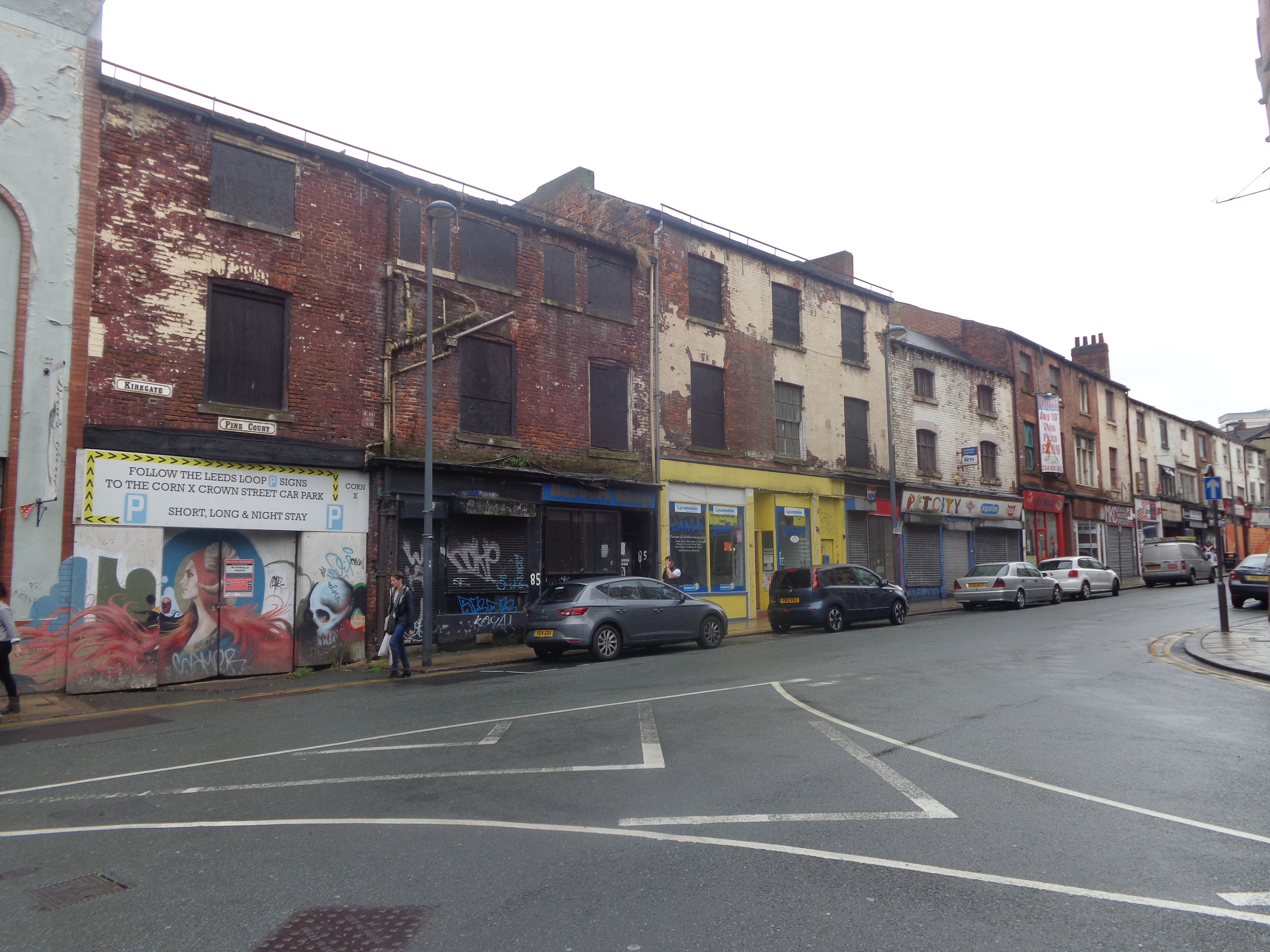 1st White Cloth Hall, Kirkgate, Leeds, West Yorkshire. Taken on the afternoon of Saturday the 19th of July 2014.